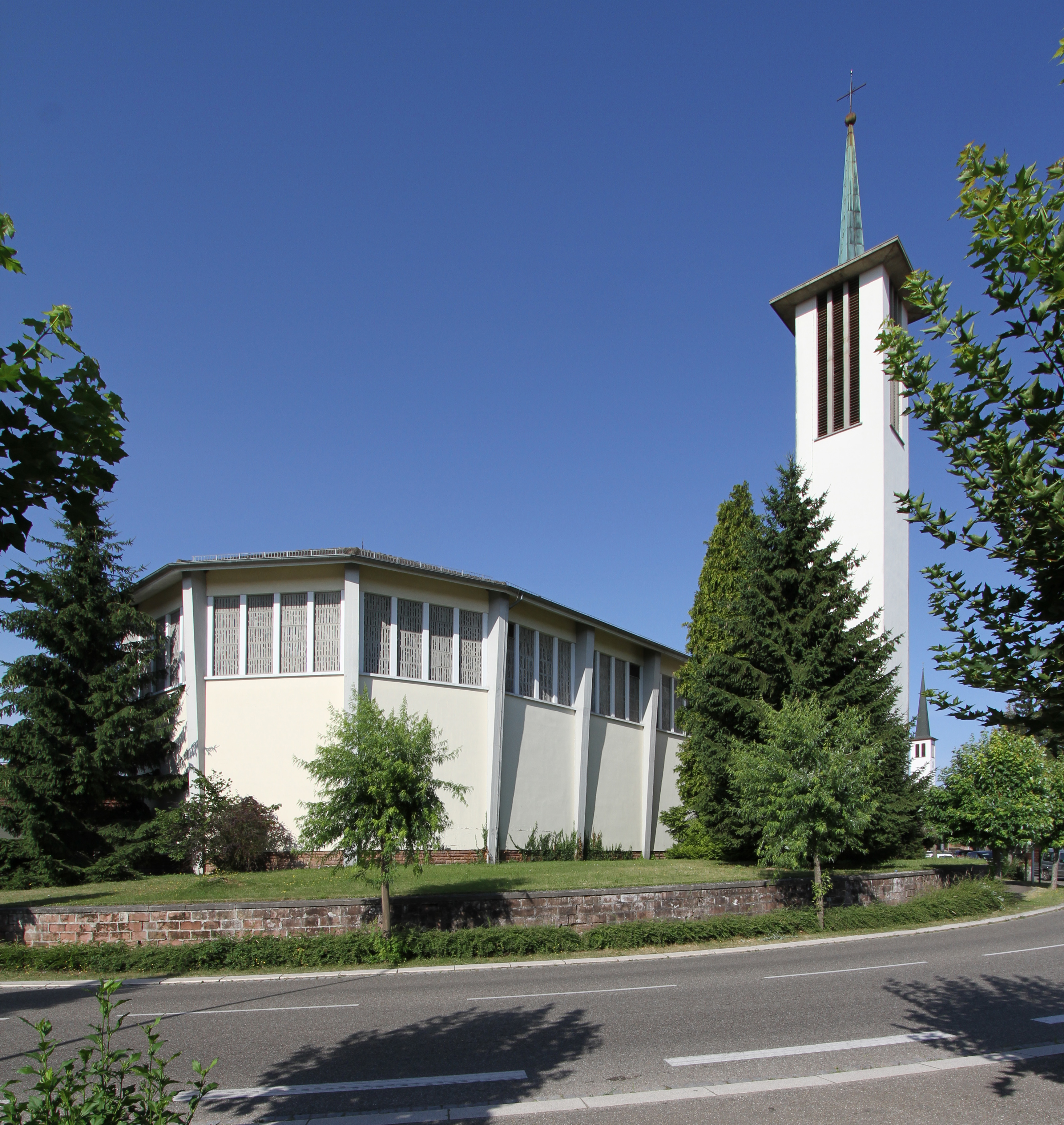 Church of St. Michael in Hatten.